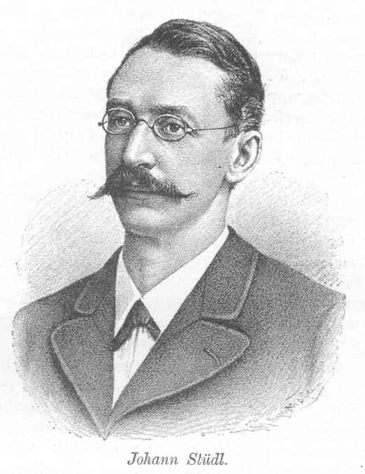 Scan from a historic book 1894